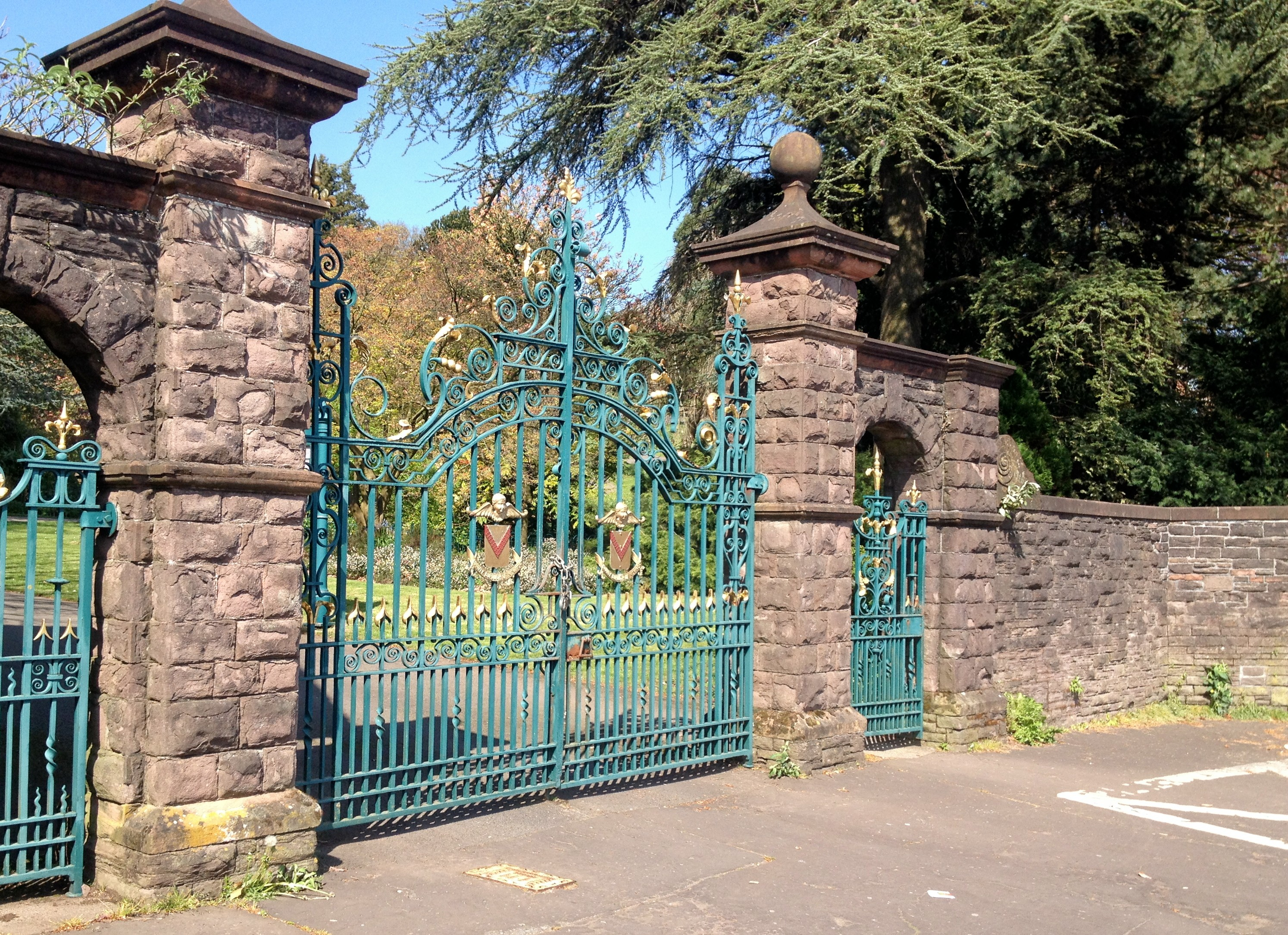 Belle Vue Park gates, Cardiff Road, Newport, South Wales